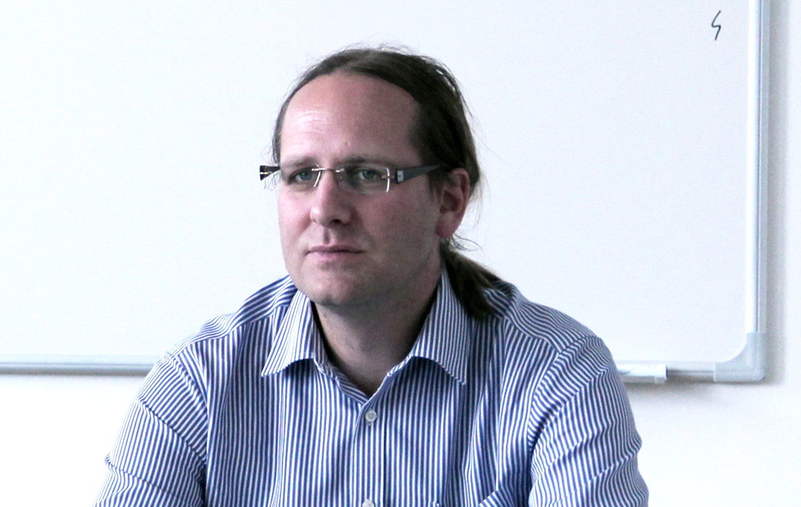 Jan Wintr @ Weyrovy dny právní teorie 2019